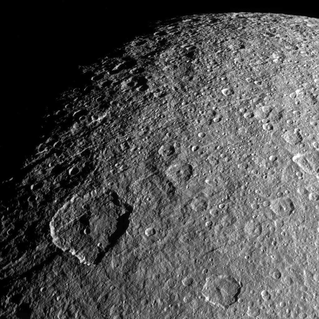 PIA18310: Rhea in Relief Surface features on Rhea -- mostly impact craters in this image -- are thrown into sharp relief thanks to long shadows. Viewing this terrain near the day/night terminator makes it easier to appreciate just how violent Rhea's geological history has been. The craters on Rhea (949 miles, or 1,527 kilometers across) are the result of 4.6 billion years of bombardment by small bodies. With very little erosion, the scars and craters remain unless they are overwritten by other, newer impacts. This view looks toward the anti-Saturn hemisphere of Rhea. North on Rhea is up and rotated 11 degrees to the right. The image was taken in visible light with the Cassini spacecraft narrow-angle camera on Feb. 10, 2015. The view was acquired at a distance of approximately 47,000 miles (76,000 kilometers) from Rhea. Image scale is 1,500 feet (460 meters) per pixel. The Cassini mission is a cooperative project of NASA, ESA (the European Space Agency) and the Italian Space Agency. The Jet Propulsion Laboratory, a division of the California Institute of Technology in Pasadena, manages the mission for NASA's Science Mission Directorate, Washington. The Cassini orbiter and its two onboard cameras were designed, developed and assembled at JPL. The imaging operations center is based at the Space Science Institute in Boulder, Colorado. For more information about the Cassini-Huygens mission visit and The Cassini imaging team homepage is at